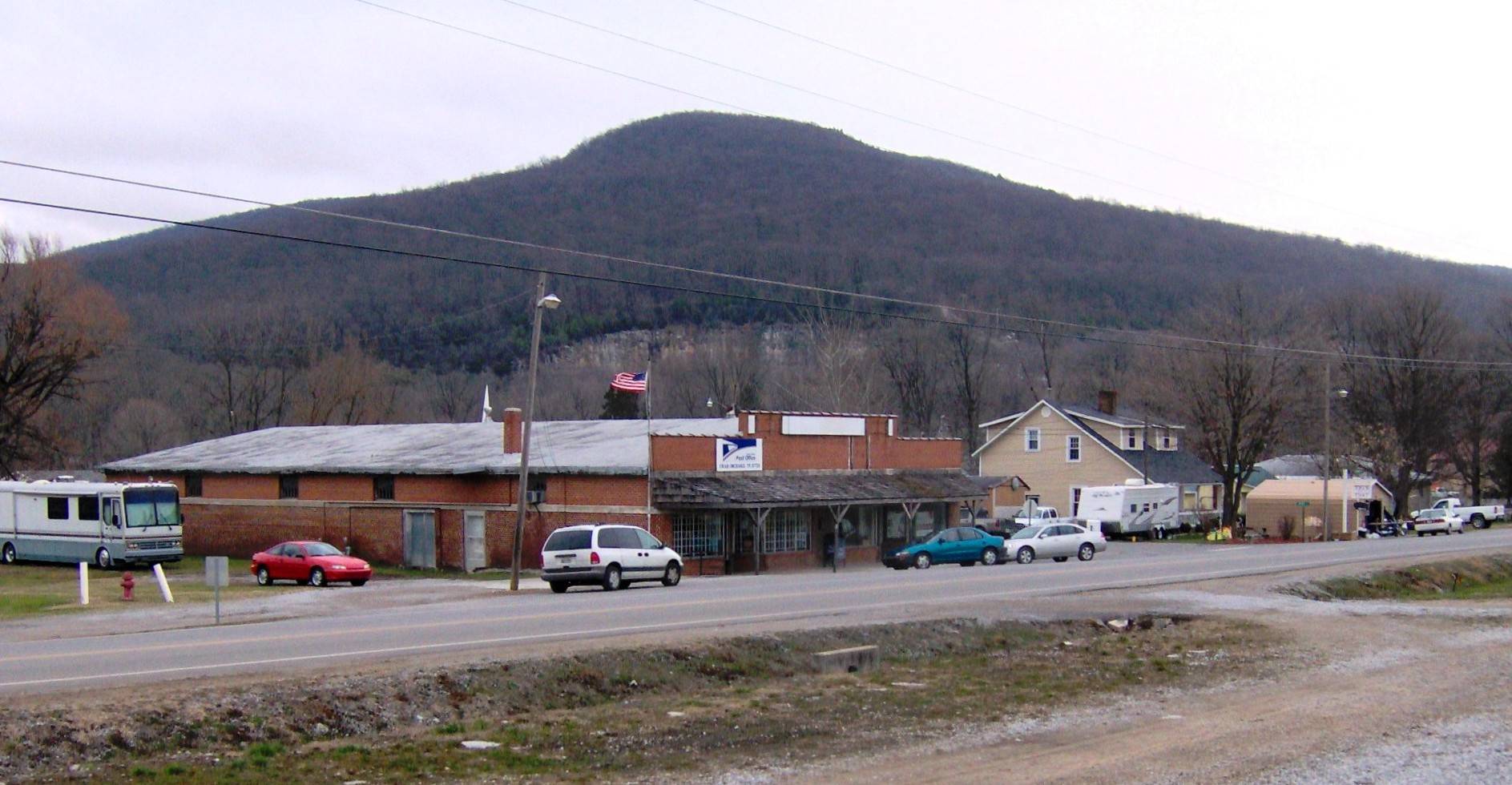 Crab Orchard, Tennessee, located in the Southeastern United States. Big Rock Mountain in the background. Crab Orchard's post office is in the foreground.